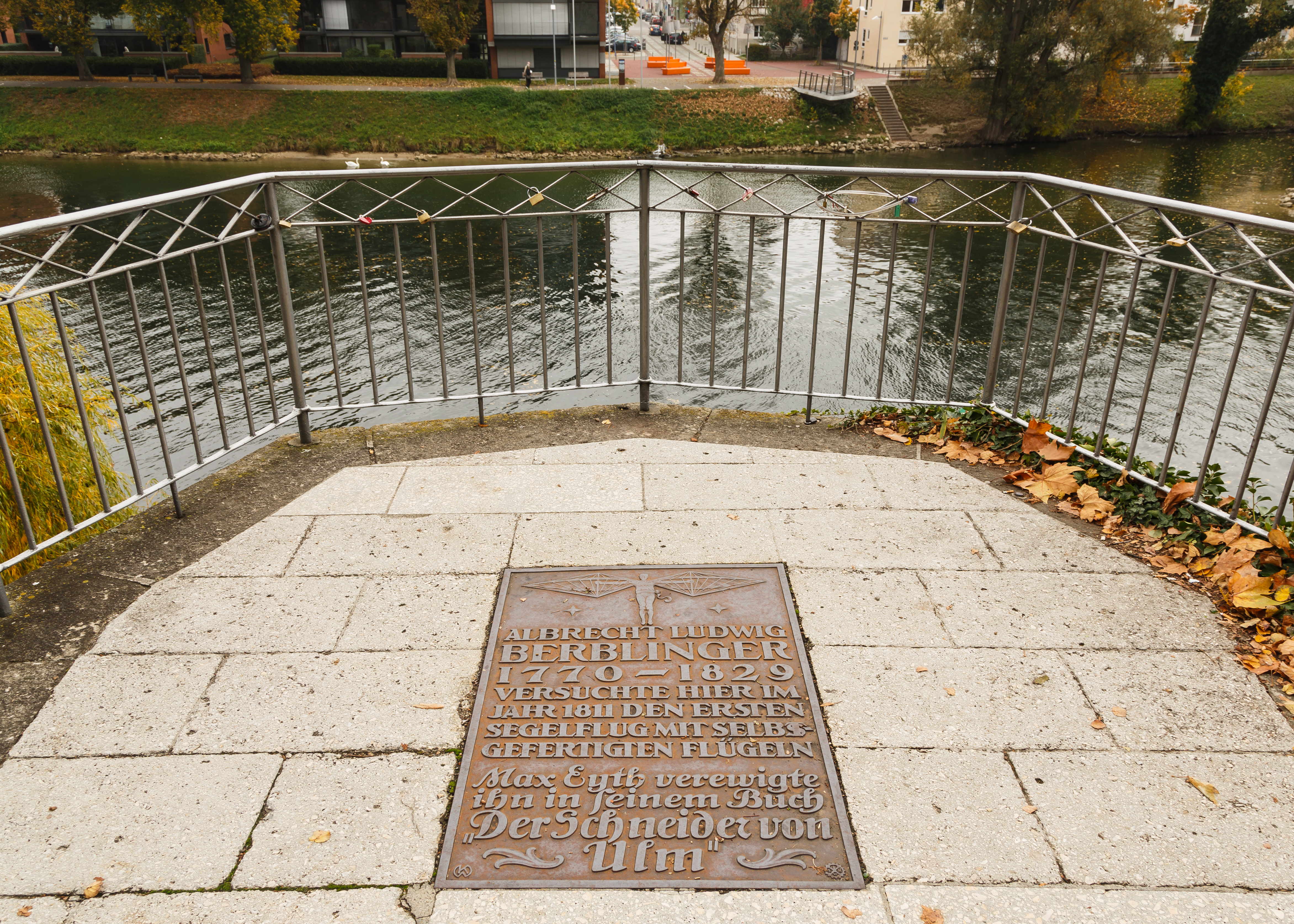 Ulm, Baden-Württemberg, Germany: Eagles Bastion and Memorial stone for Albrecht Ludwig Berblinger.